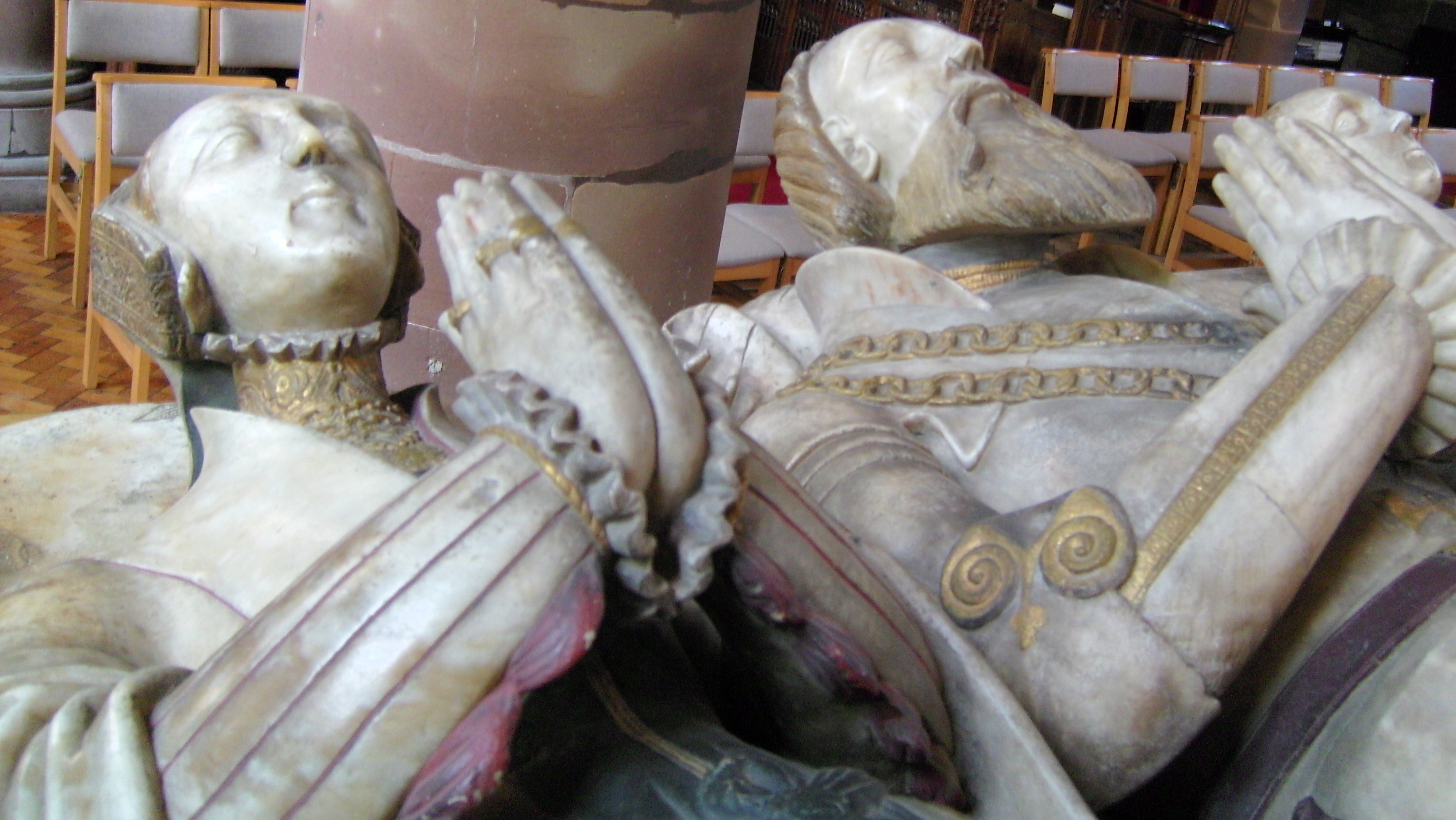 St. Michael and All Angels parish church, Penkridge, Staffordshire: tomb of Sir Edward Littleton (died 1558) and his wives, Helen Swynnerton and Isabel Wood. Attributed to the Royley workshop in Burton upon Trent.